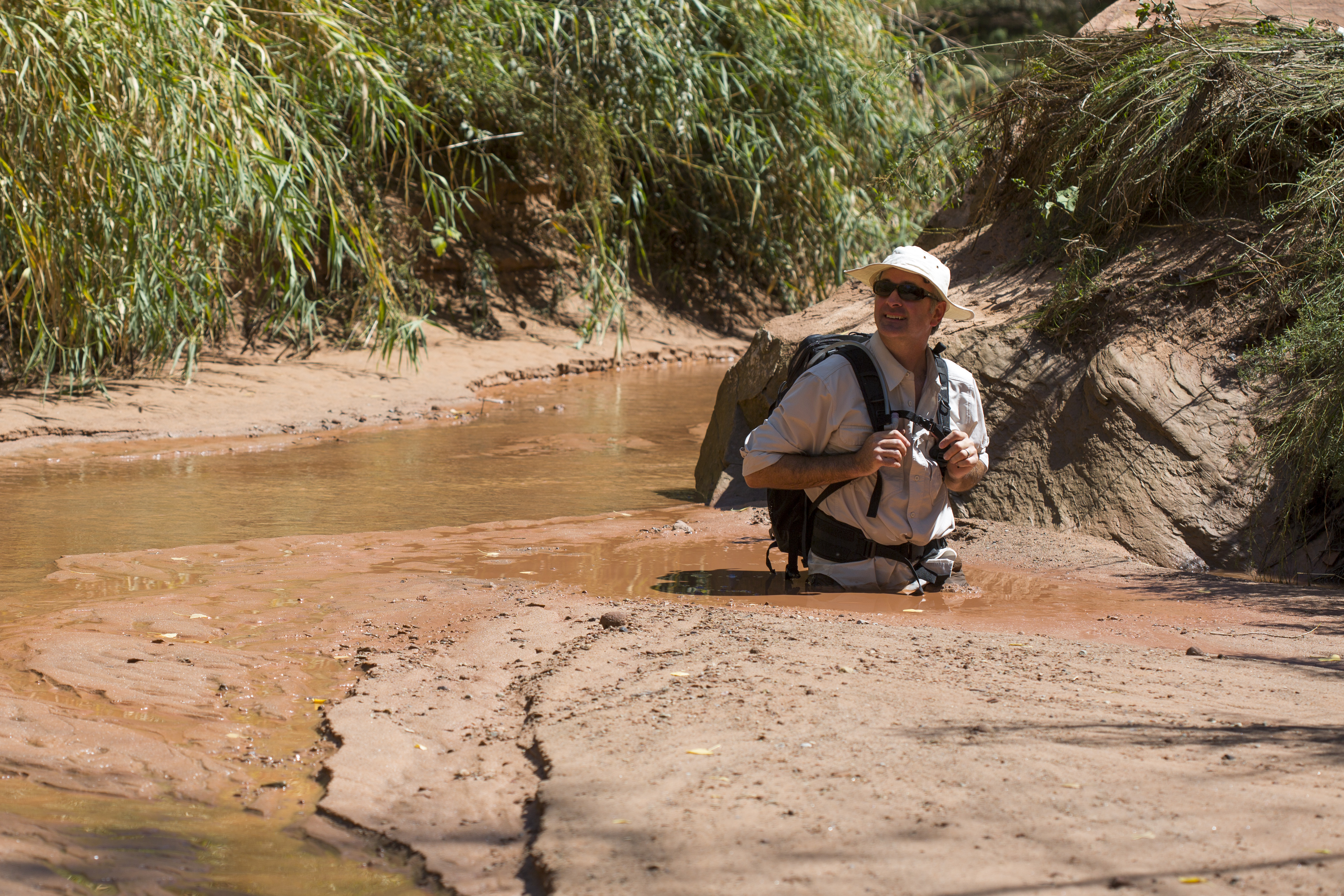 (NPS photo by Jacob W. Frank)